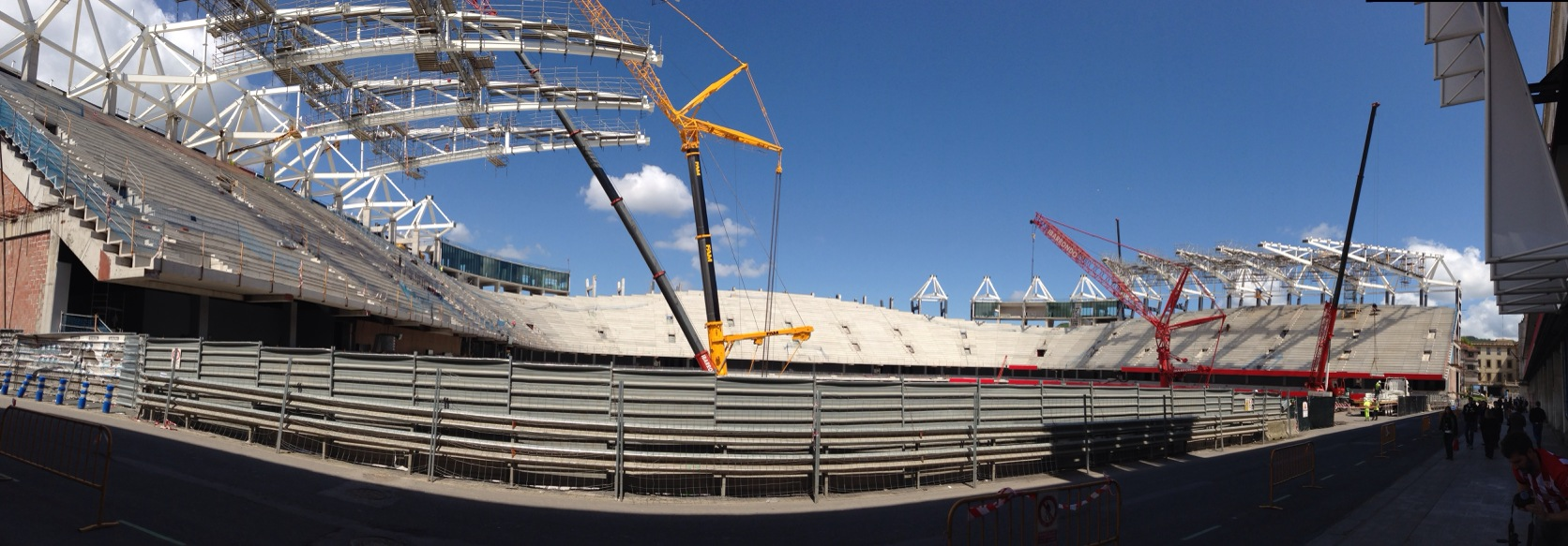 Construction of San Mames Barria.